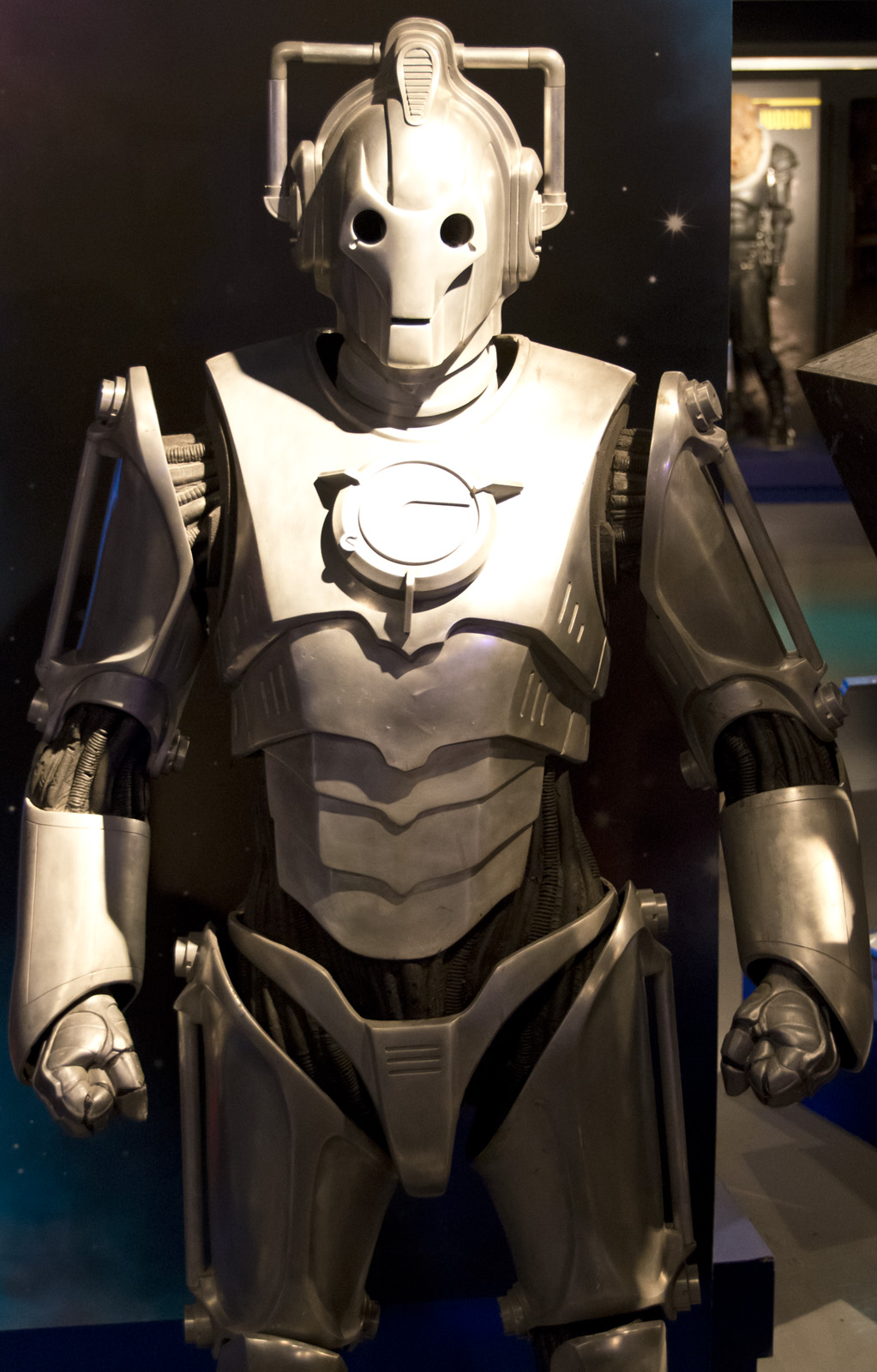 Doctor Who Experience